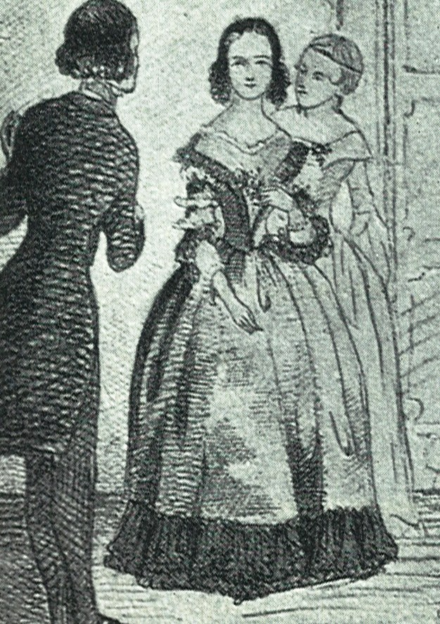 Drawing by norwegian writer Johan Sebastian Welhaven, used to illustrate his poem "Soiree-billeder"